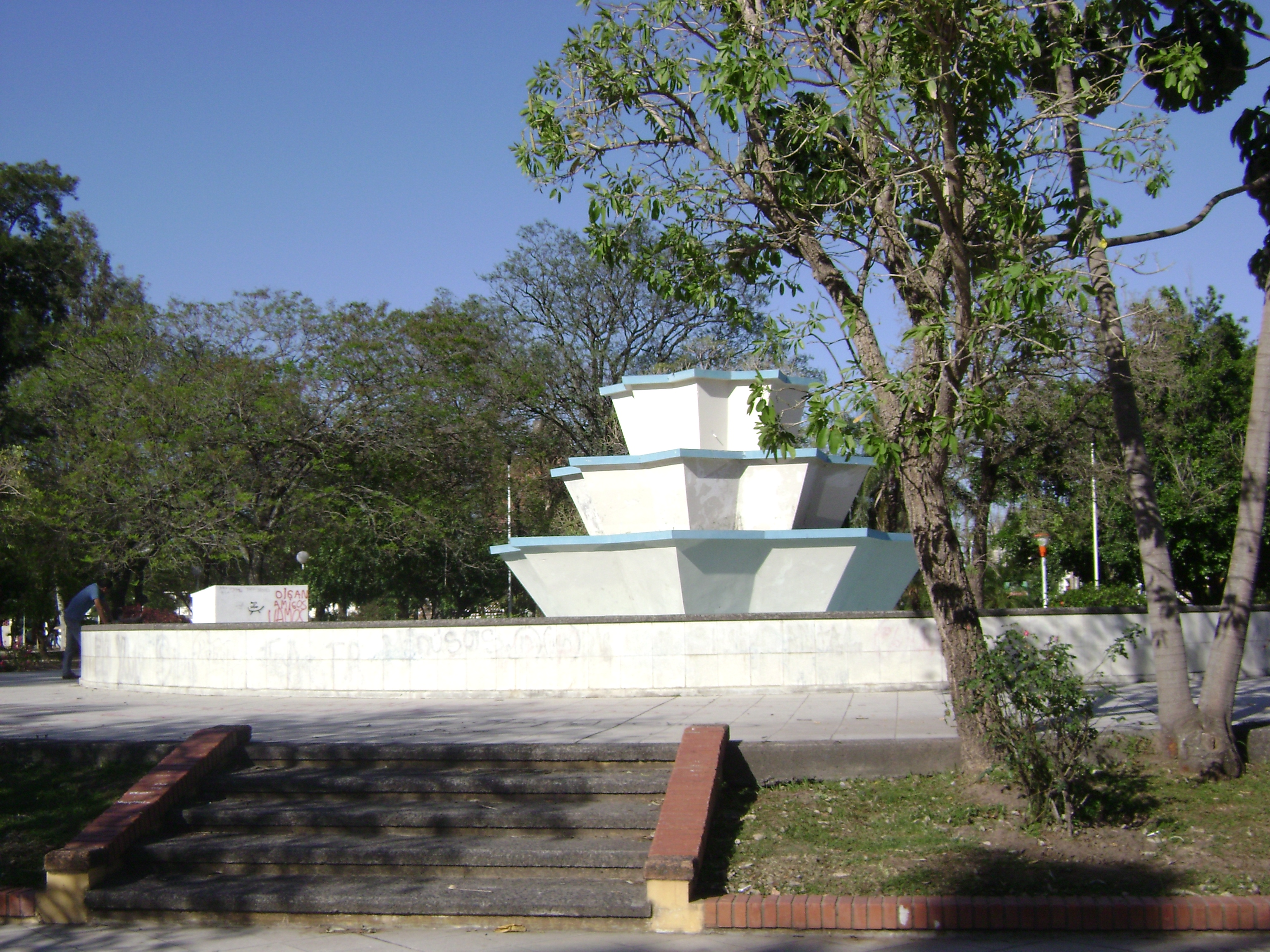 Fountain in San Martín Square. Formosa, Argentina.